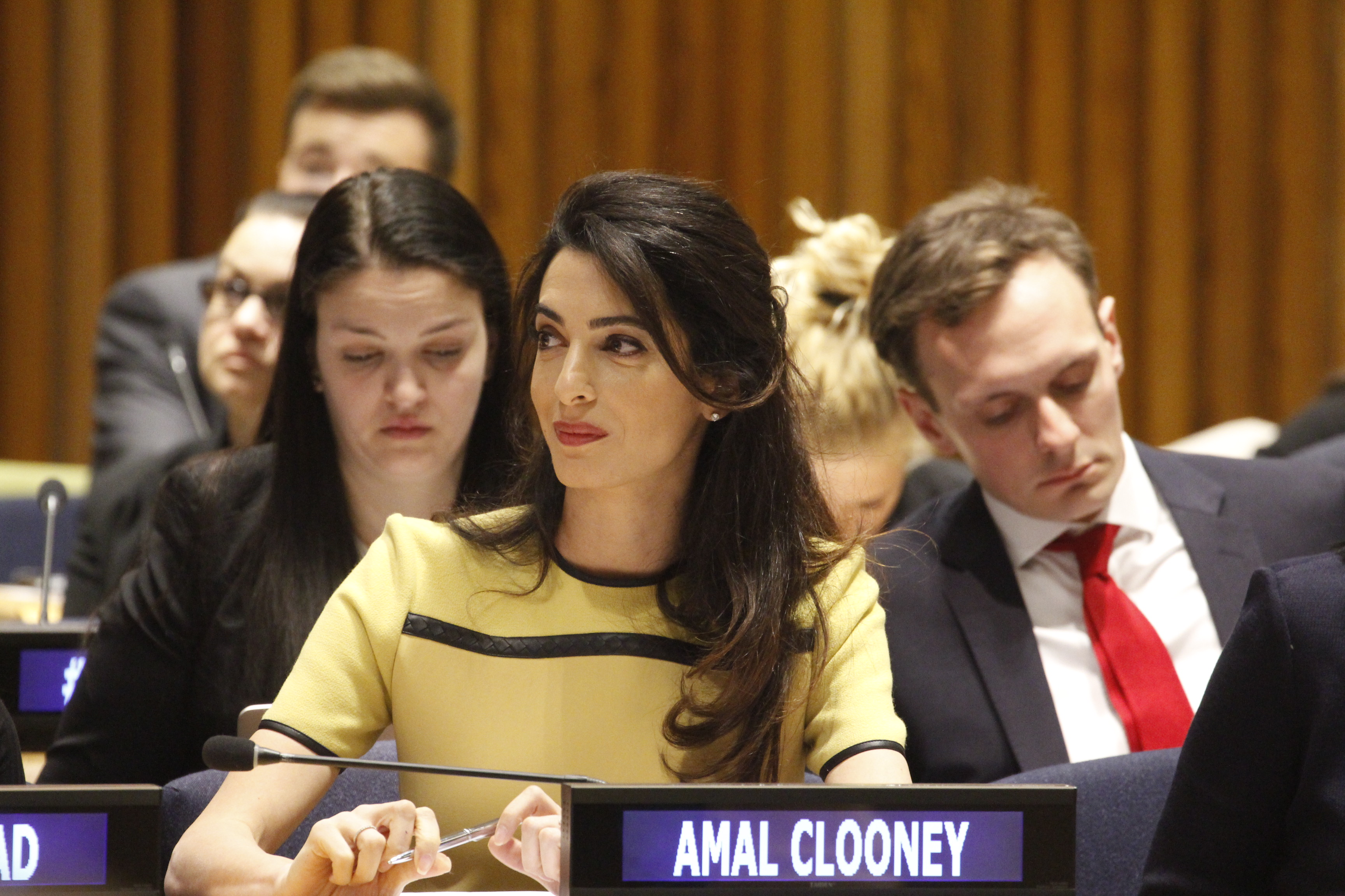 Amal Clooney